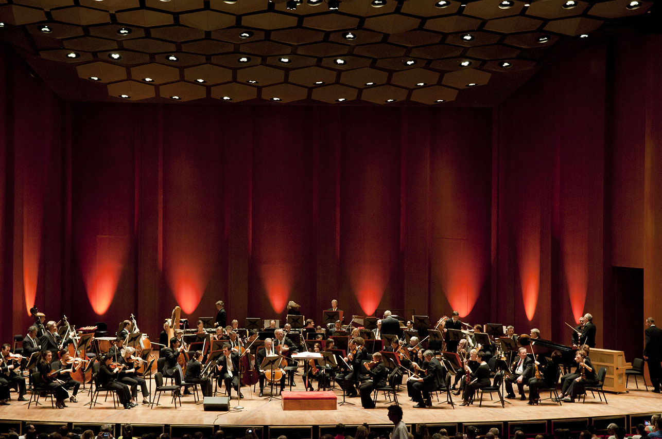 Houston Symphony getting ready to perform. August 29, 2010.